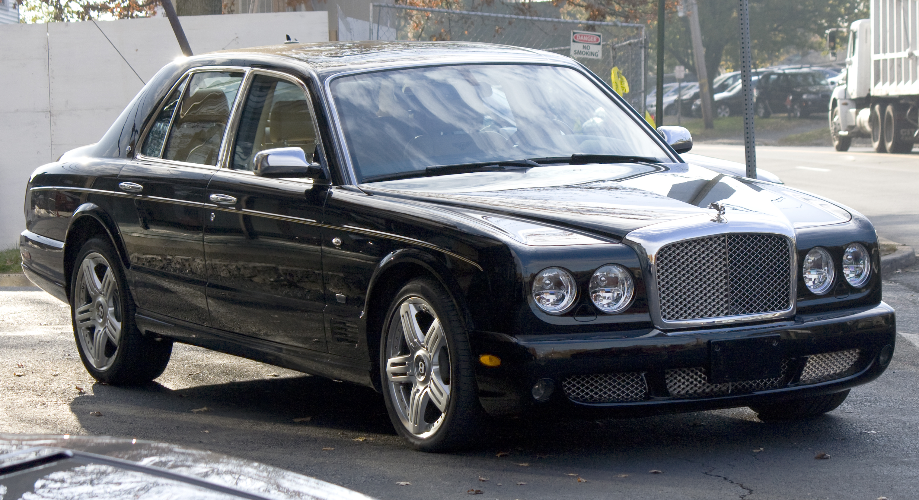 1 of 150 Bentley Arnage "Final Series". Built in 2009, these are based on the Arnage T (with the 500hp V8) and celebrate the end of Arnage production